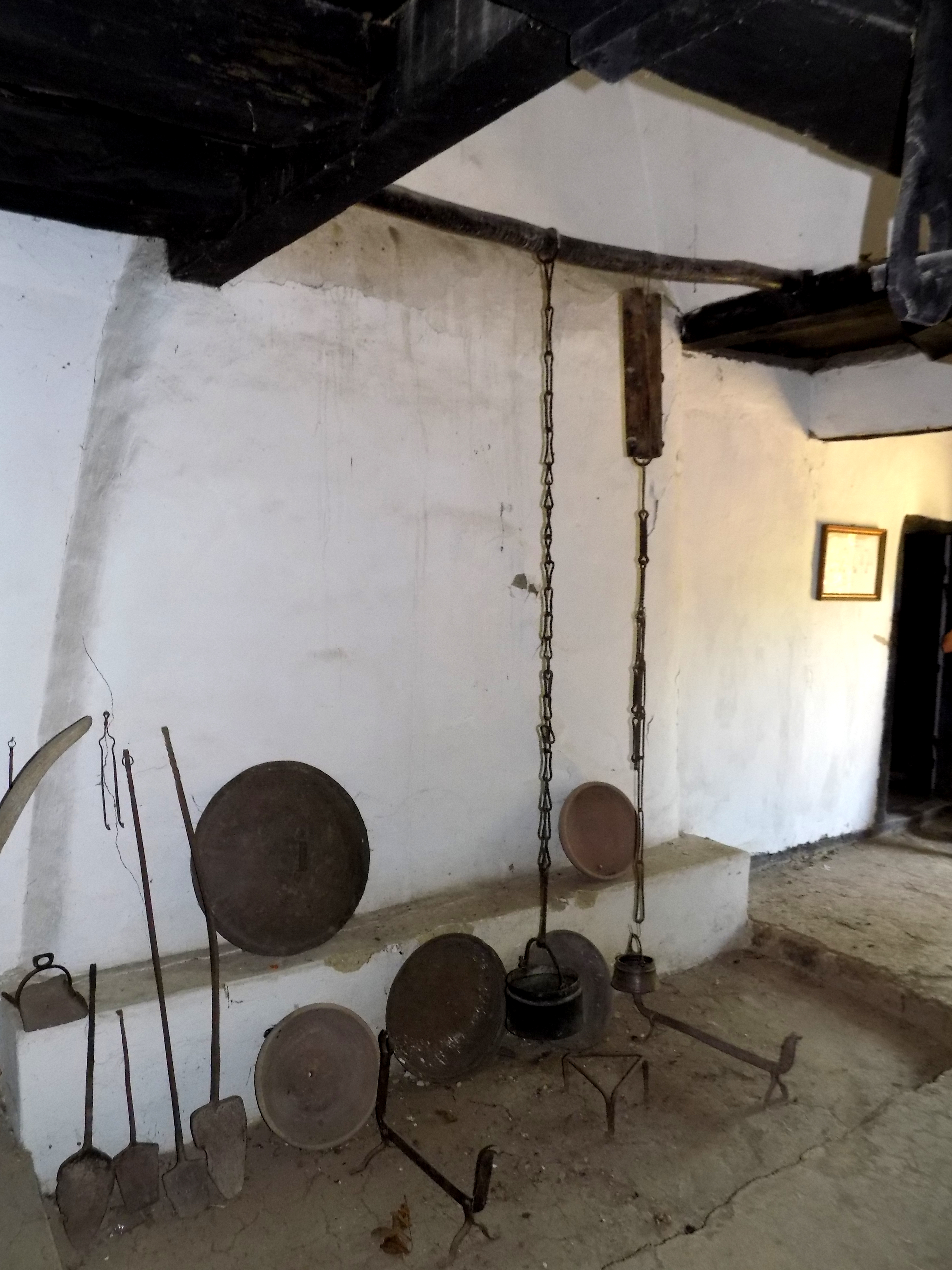 House of the Matic family - Details from the guestroom with a fireplace